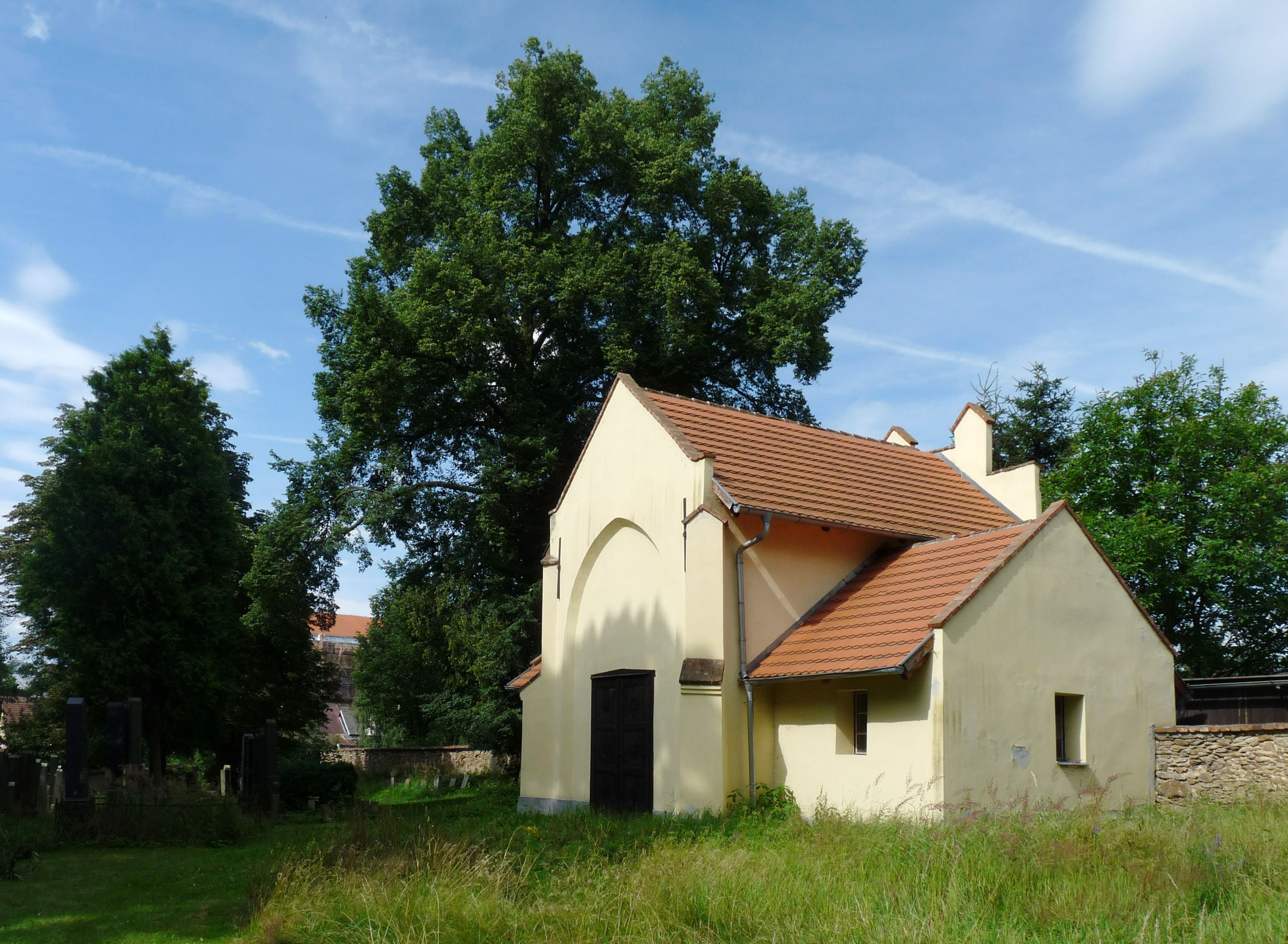 Ceremonial hall of the Jewish cemetery in the market town of Nová Cerekev, Pelhřimov District, Czech Republic